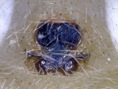 Epigyne of female Thiodina sylvana